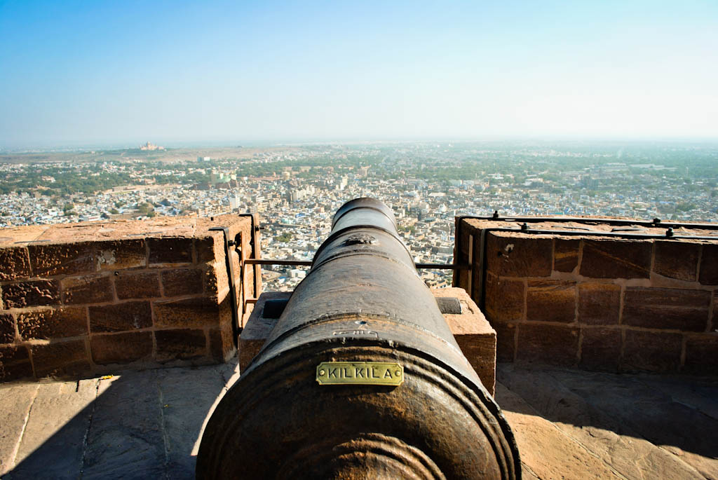 The famous Kilkila cannon in Mehrangarh Fort